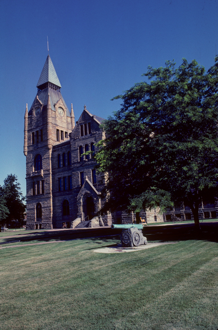 The current Knox County Courthouse in Galesburg, Illinois.